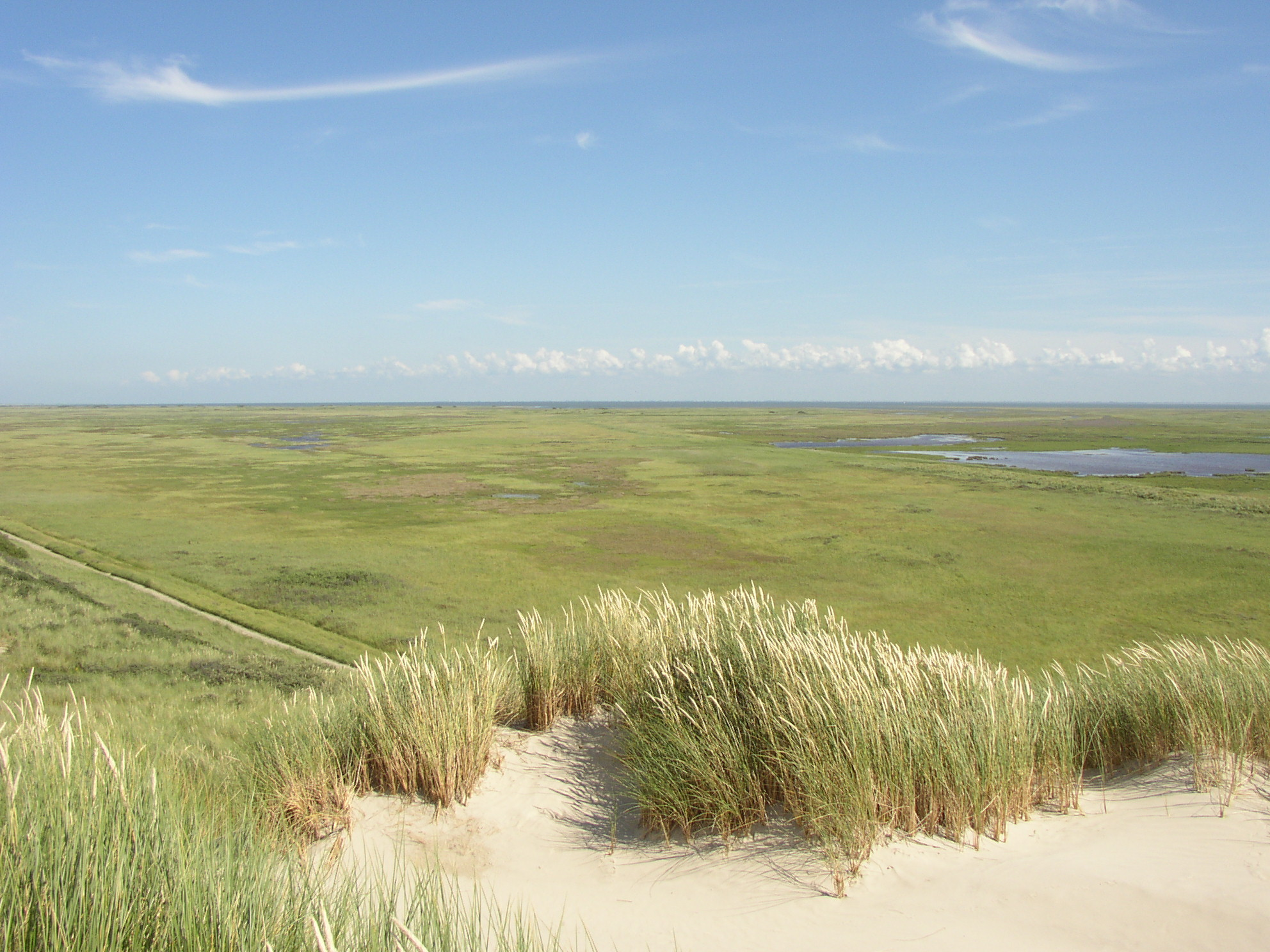 Image of the European nature monument the "Bosplaat" on Terschelling taken from the north sea coast dunes. Taken by me DarkLoki 09:47, 21 October 2007 (UTC)